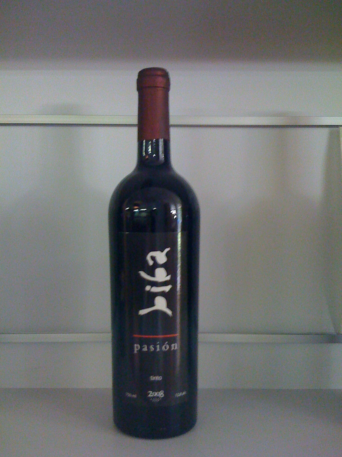 A bottle of Pasion Biba Tinto (Mexican wine)